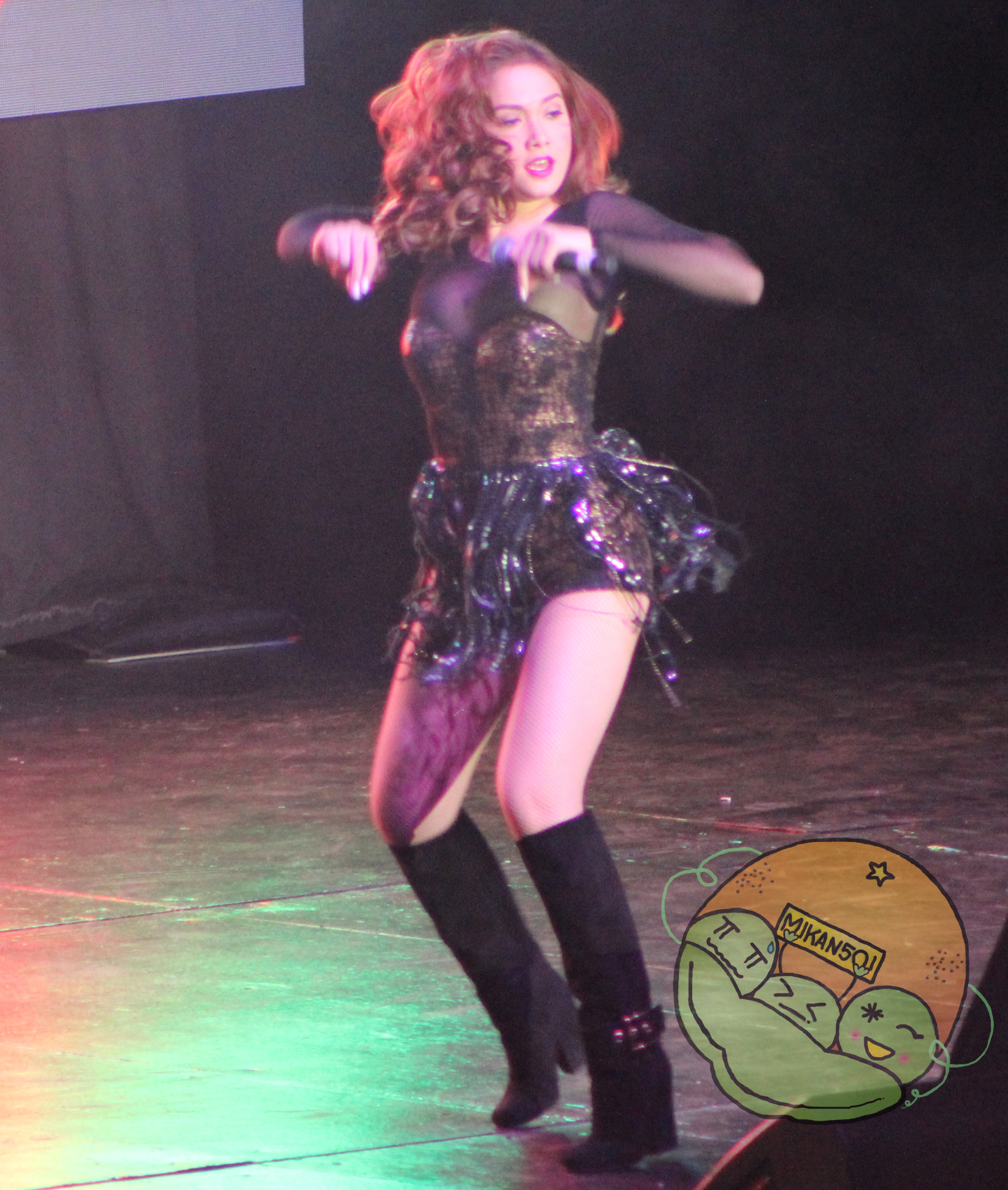 Maja Salvador performing during ABS-CBN's concert tour "One Kapamilya Go" in Toronto, Ontario on June 21, 2014